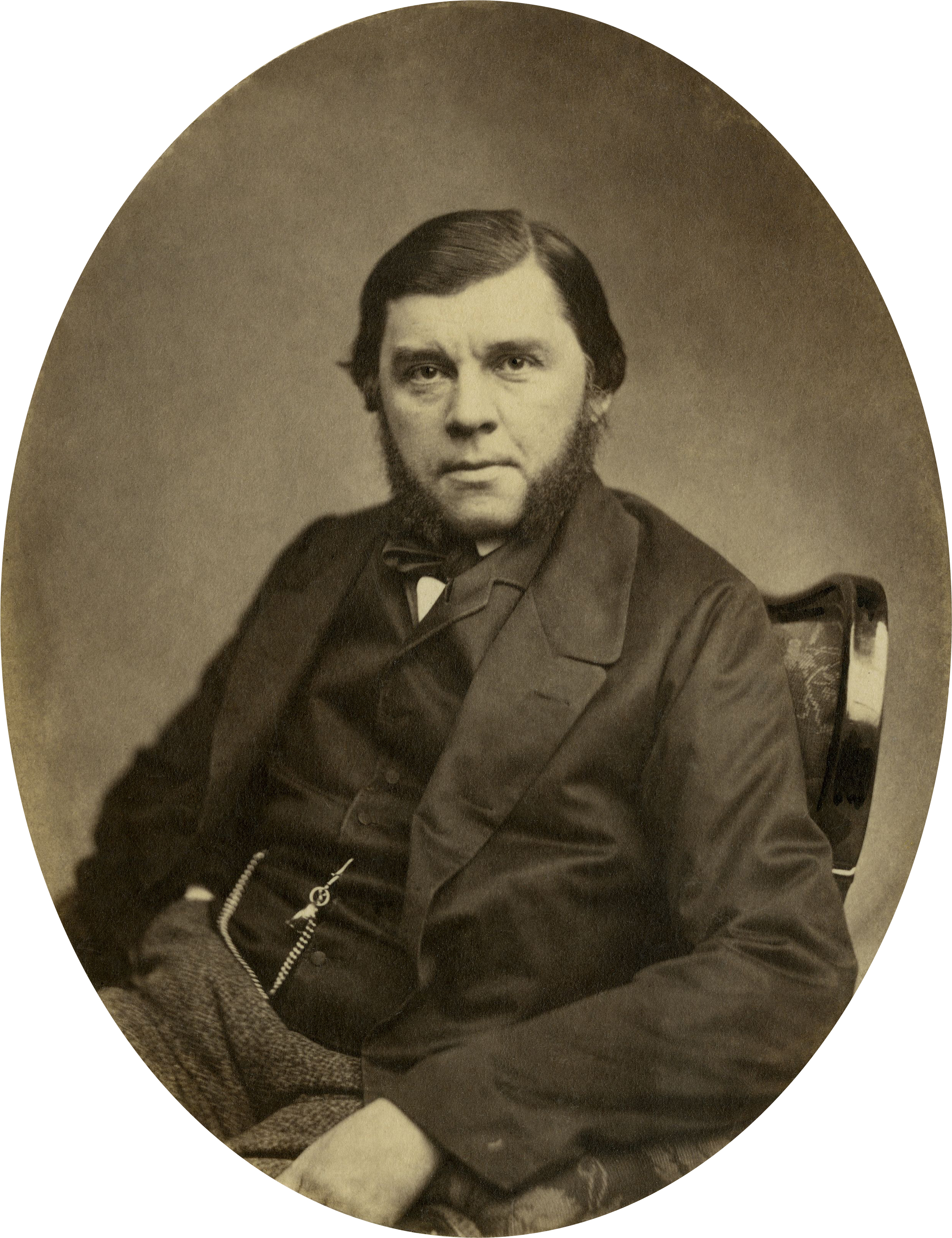 Russian writer Vladimir Alexandrovich Sologub